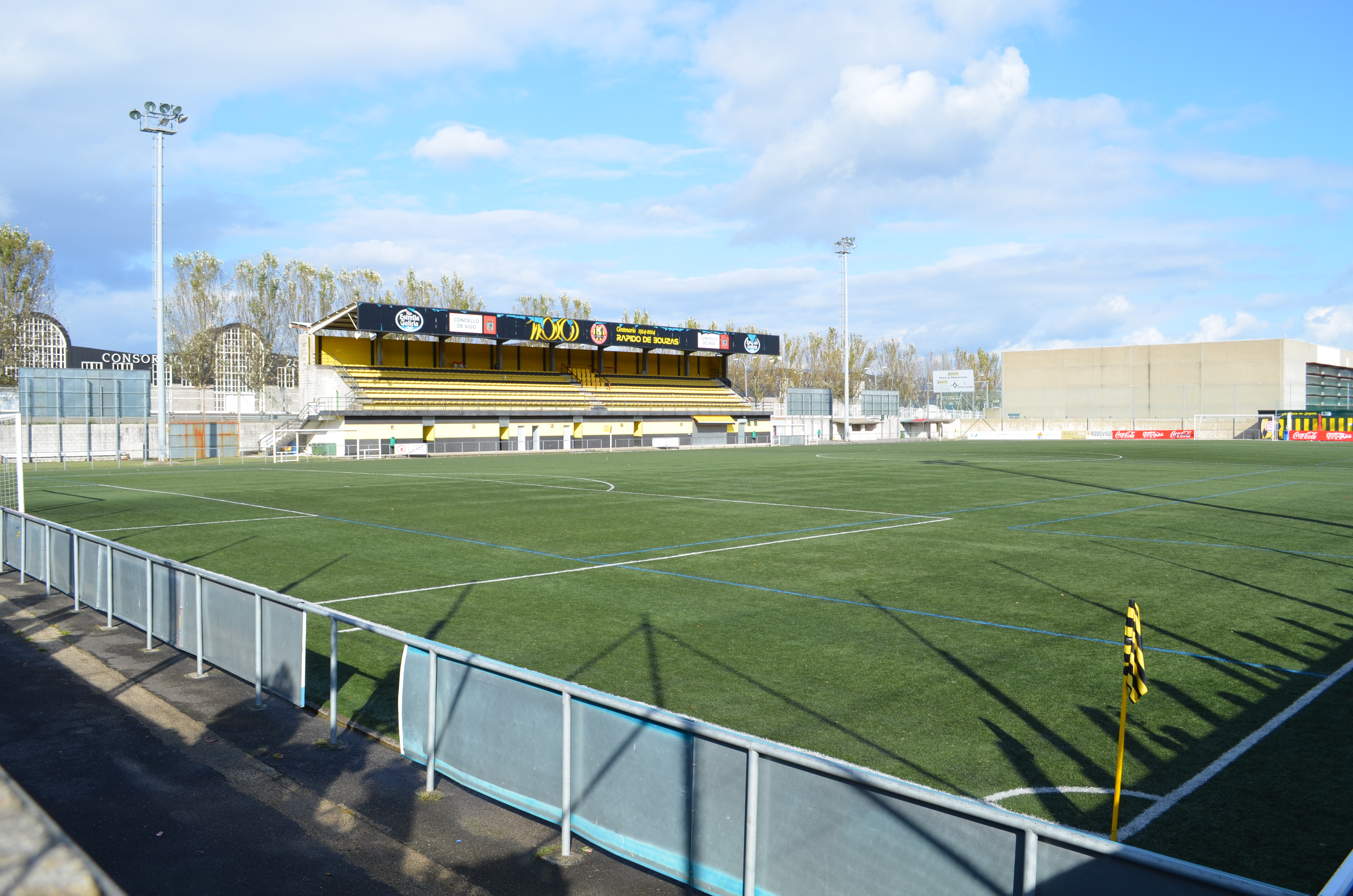 2014-11-09 - Campo De Futbol Baltasar Pujales - Bouzas - Vigo - Spain (6)